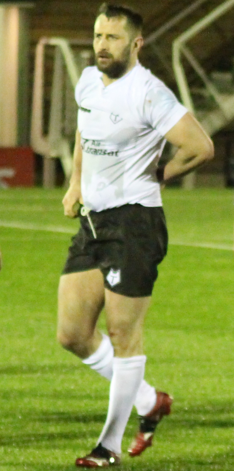 Bob Beswick